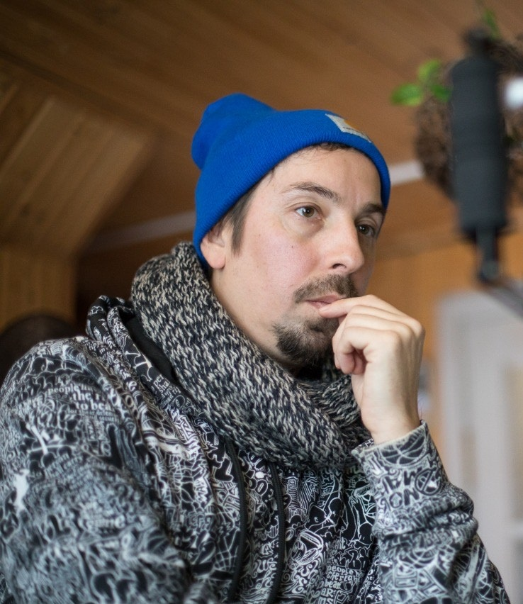 Evgeny Shelyakin - Russian film director, screenwriter and actor.